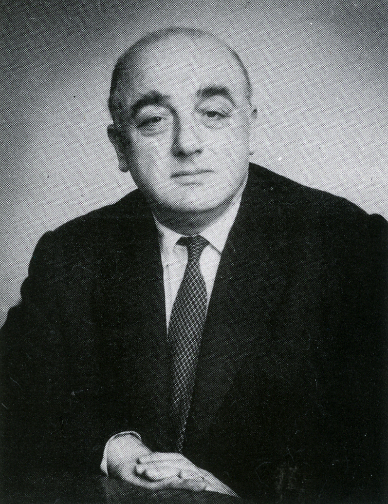 Ali İrfan Şahinbaş portre